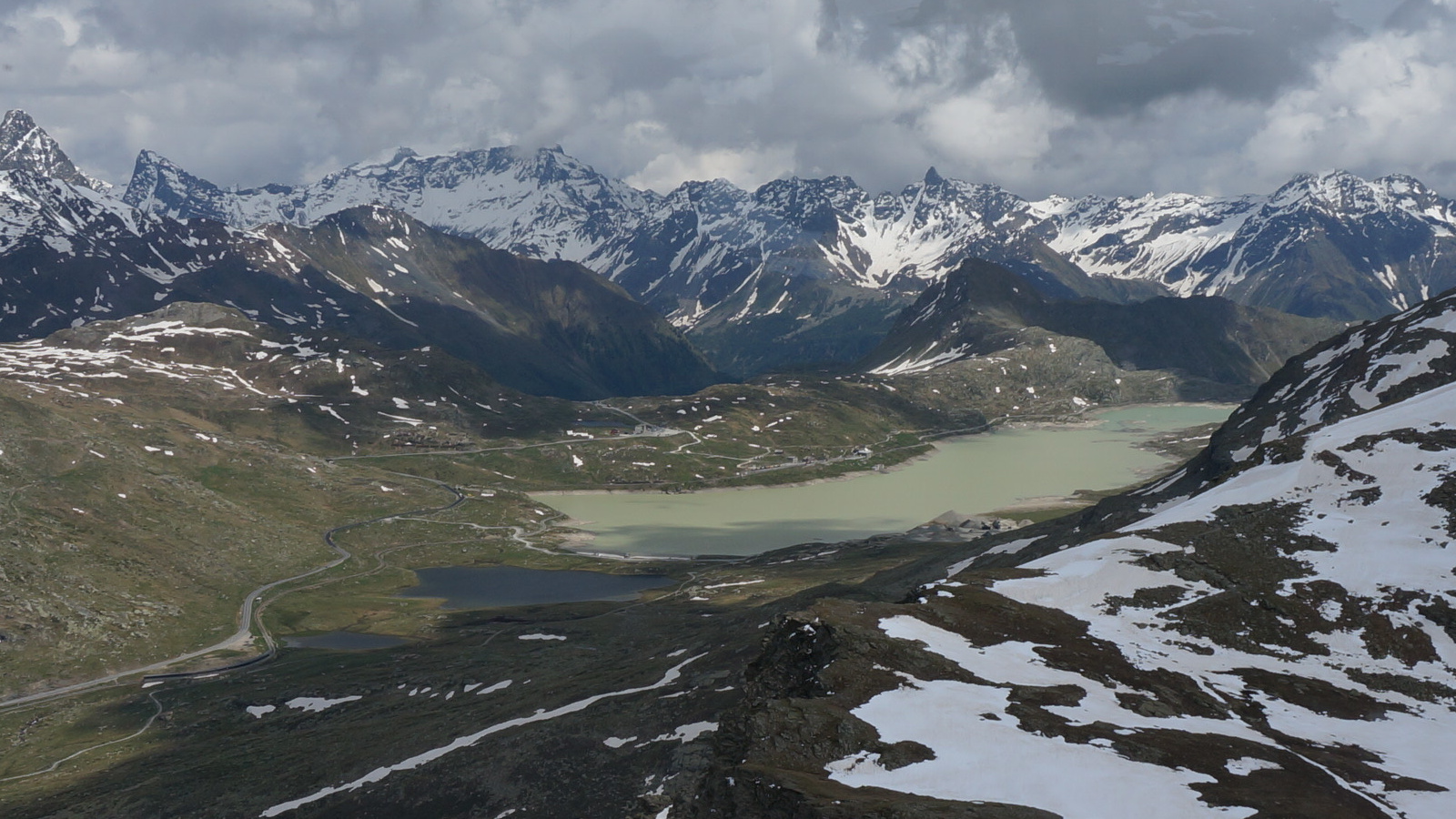 Lago Bianco "white lake", Lej Nair "black lake" and Lej Pitschen, from the back to the front. A view from Diavolezza cable car in 2013.